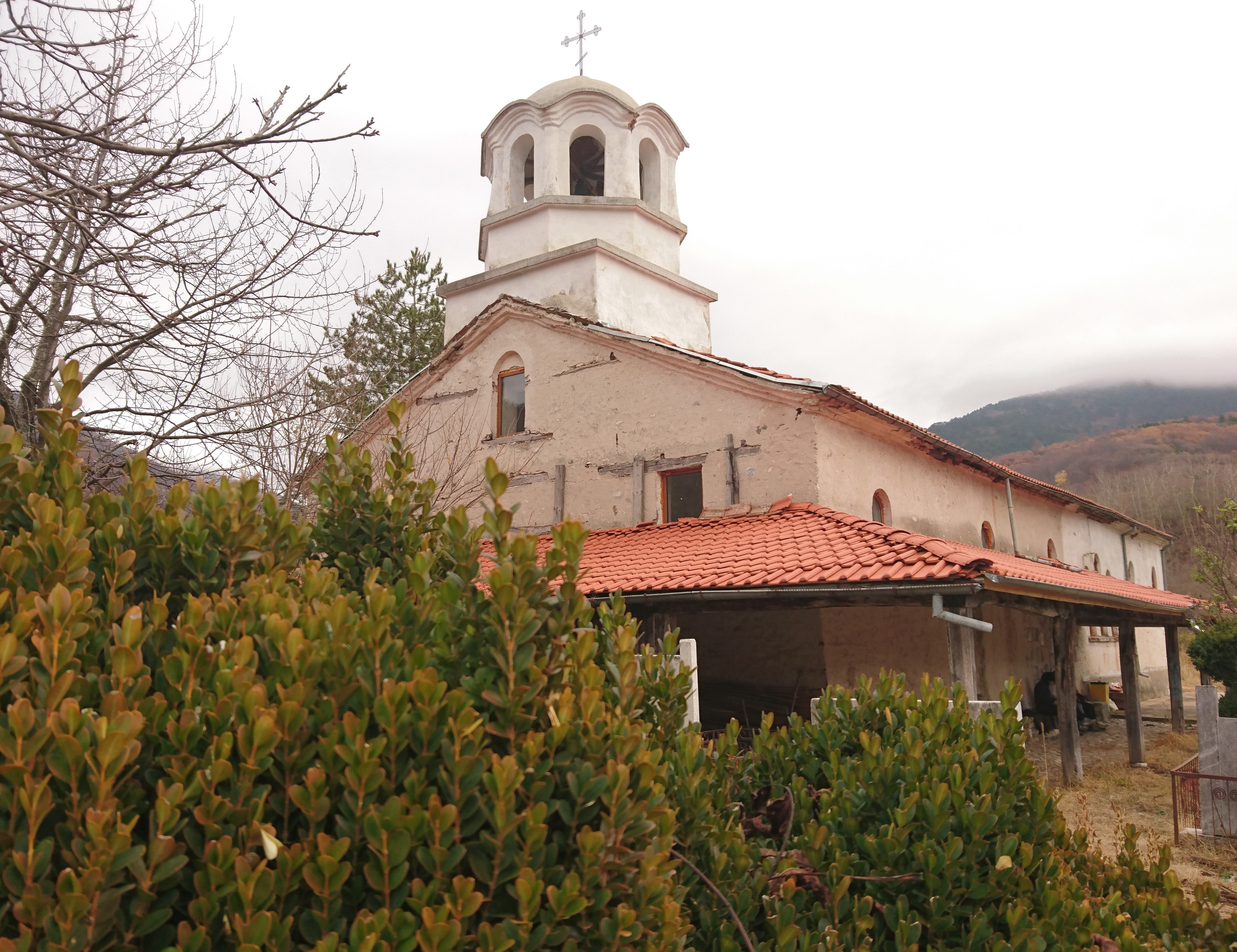 St. Demetrius Church in Goleshovo, Southwestern Bulgaria